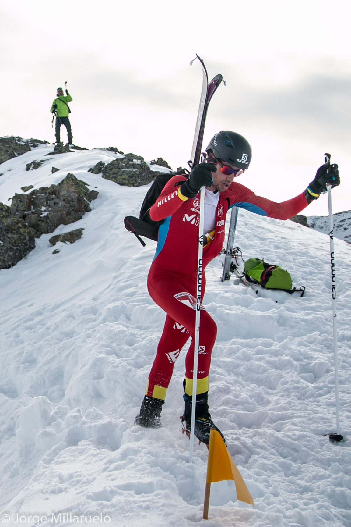 ISMF Ski Mountaineering World Cup Font Blanca 2017 - Individual Race: Kilian Jornet